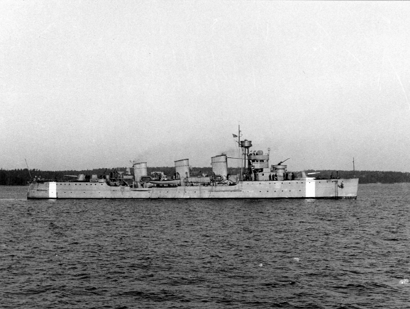 The Swedish cruiser HMS Clas Fleming.